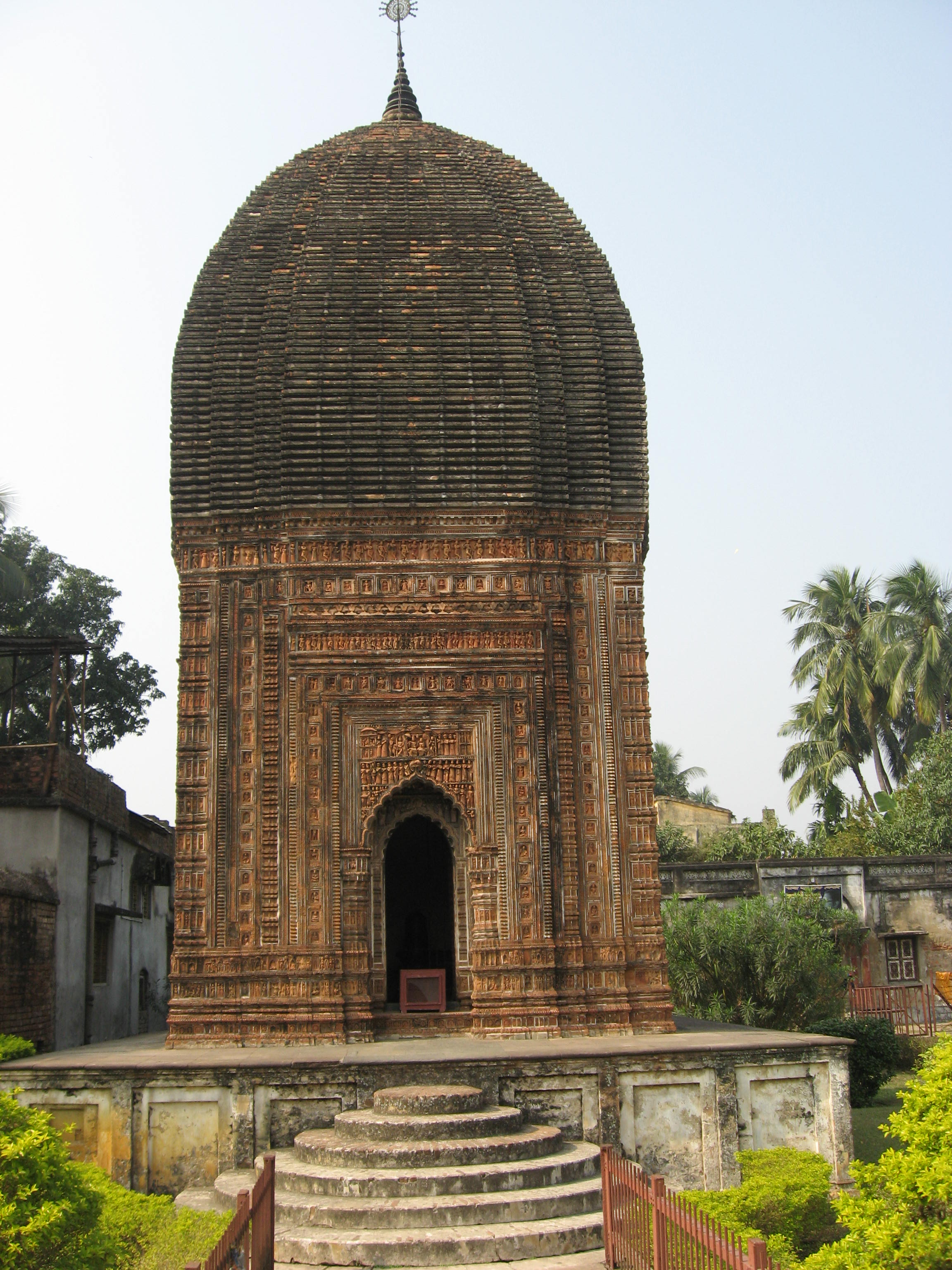 Pratapeswar Temple (Kalna, Burwan, West Bengal, India) : Raised on a high podium this temple is a good specimen of the 19th century Rekha Deul with curvilinear sikhara and single arched entrance. The temple is decorated with rich terracotta ornamentation. A roofless brick-built Rasmancha stands nearby. প্রতাপেশ্বর মন্দির (কালনা, বর্দ্ধমান, পশ্চিমবঙ্গ, ভারত): উঁচু ভিত্তির উপর উথ্থিত এক খিলান প্রবেশ পথ ও ঈষৎ বক্র শিখর সমন্বিত এই মন্দিরটি ঊনবিংশ শতকের রেখ দেউলের উৎকৃষ্ট উদাহরন । মন্দিরের গায়ে রয়েছে পোড়ামাটির জমকালো অলঙ্করণ । মন্দিরের কাছেই রয়েছে একটি ছাদবিহীন রাসমঞ্চ ।